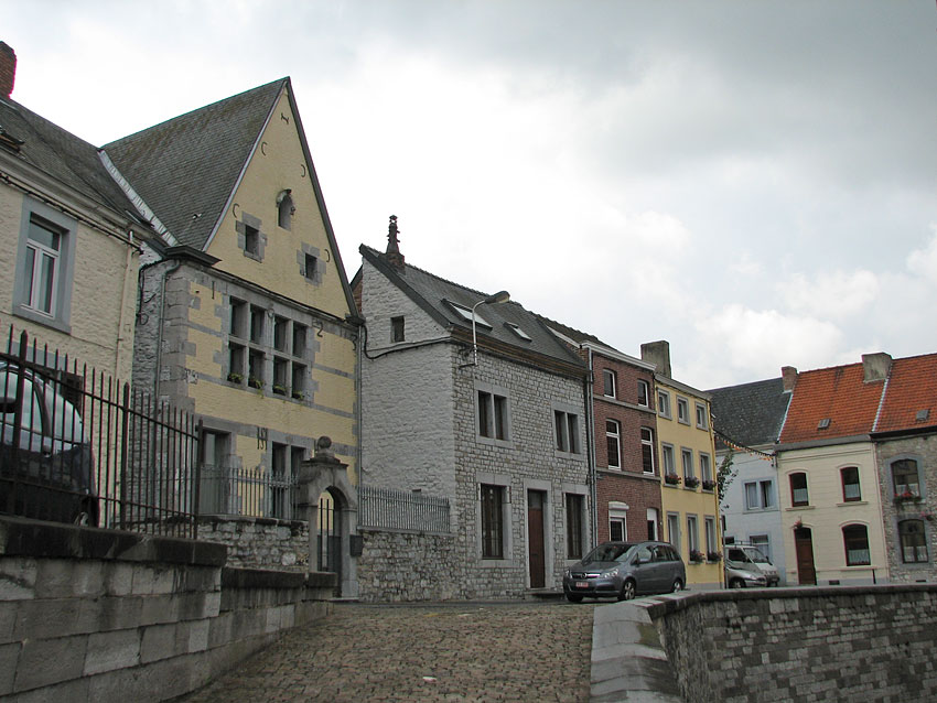 Town of Andenne, Belgium